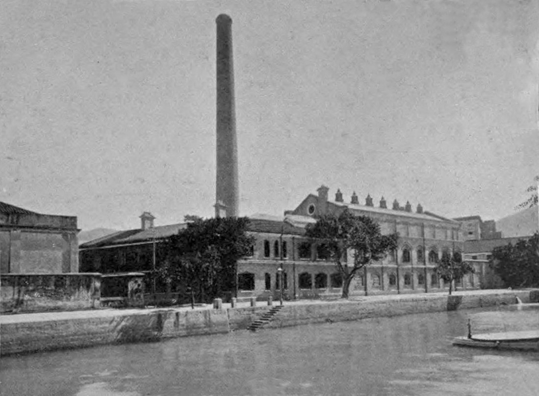 Hong Kong Electric Traction Company (detail) The generating station along Bowrington Canal